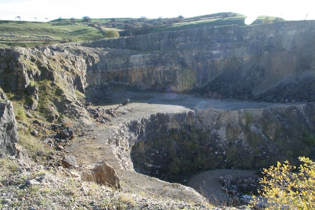 The Last Face When quarrying finished at Minera, this was the last worked face, but the quality of the rock was uneconomical, so the quarry closed.